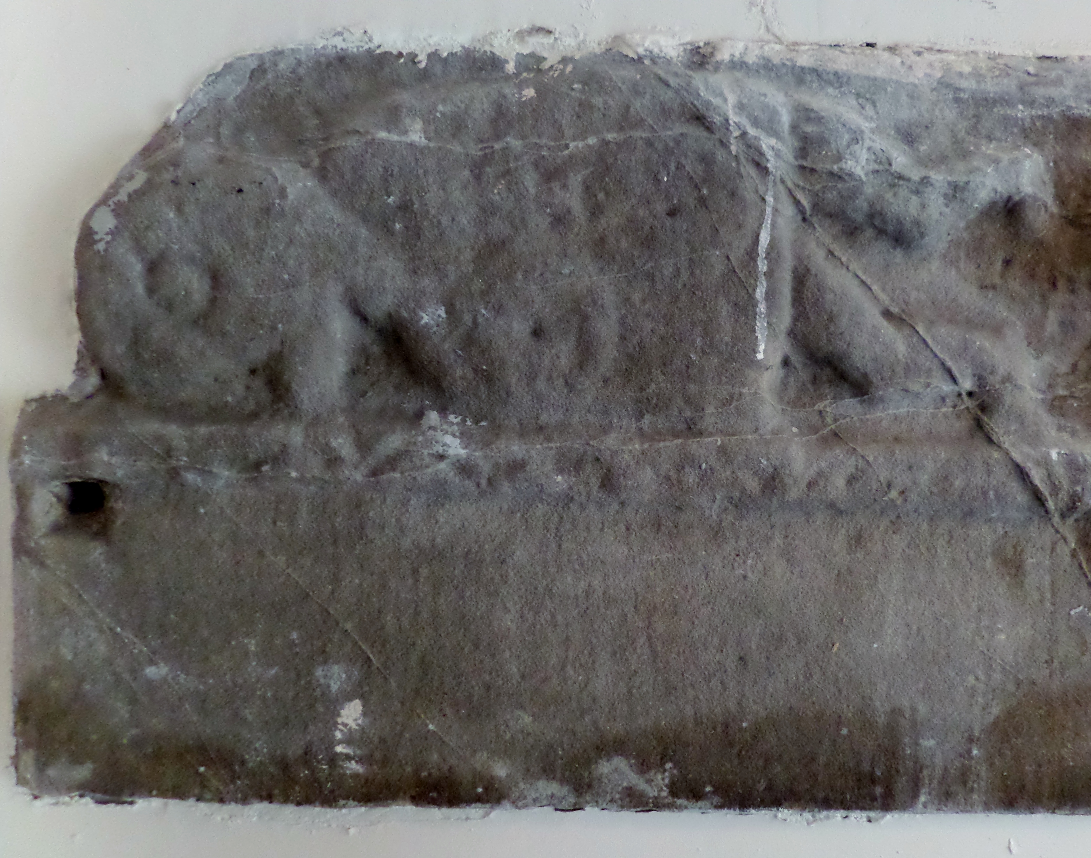 Injured warrior, Fairlie Stone, Fairlie, North Ayrshire, Scotland.